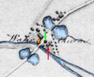 The "Warturm" at the bridge of the Road from the edge of Bremen's Neustadt to the Bremish village of Huchting across Ochtum river in 1897